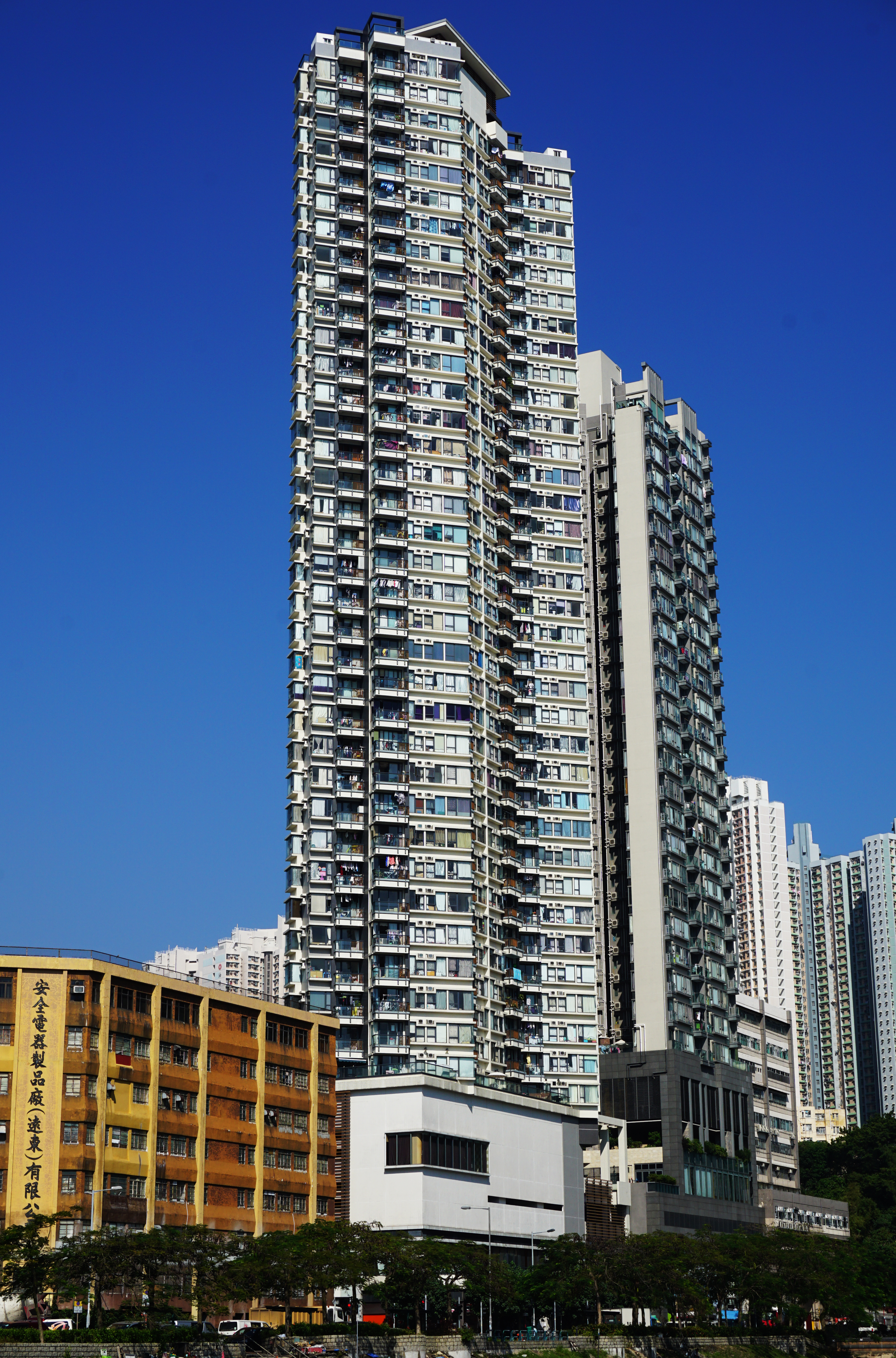 Canaryside in Yau Tong, Hong Kong.